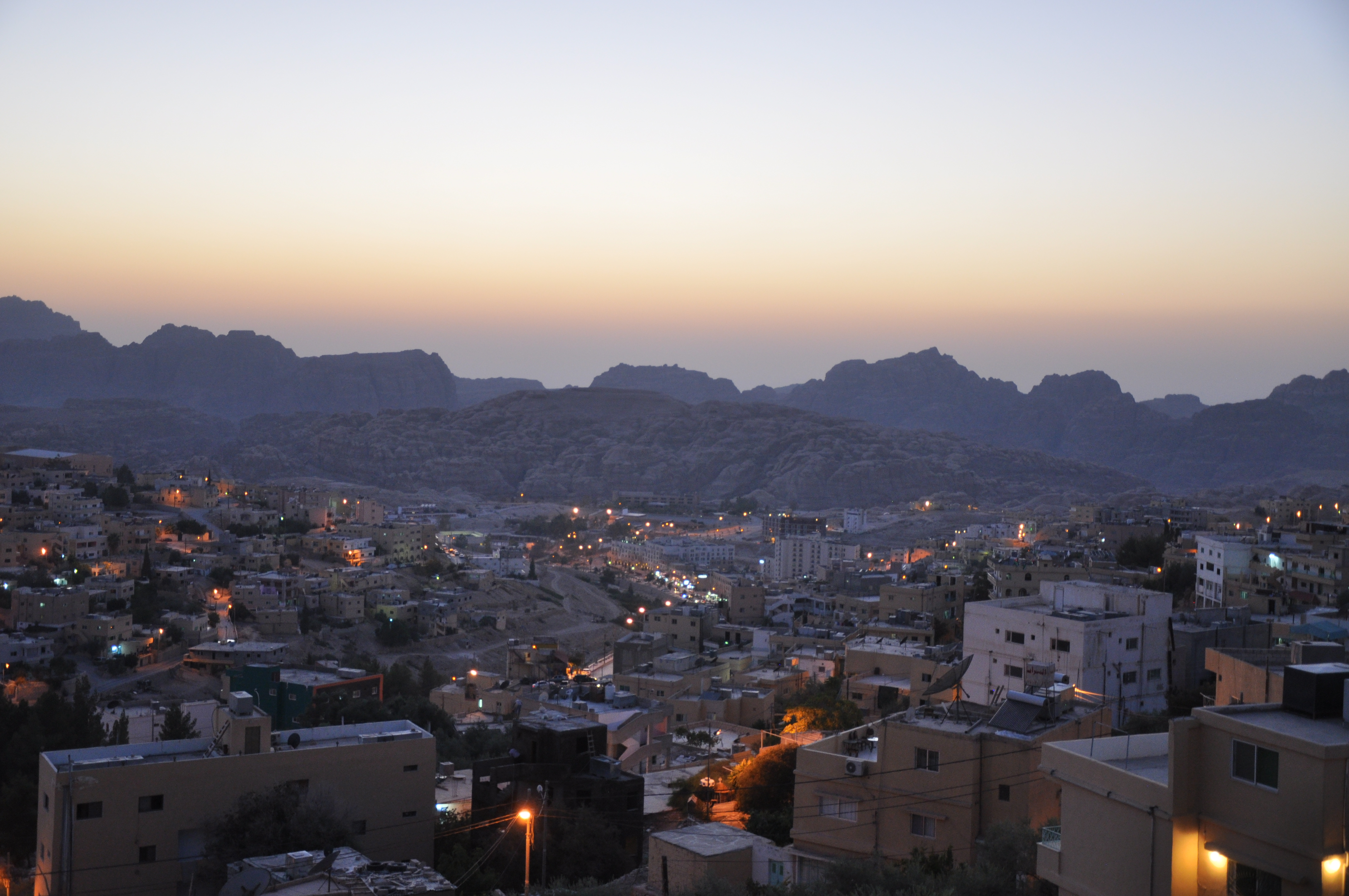 Wadi Musa, (Arabic: وادي موسى, literally ‘Valley of Moses’), is the name of a town located in the Ma'an Governorate in southern Jordan east of Petra at latitude 30.317N and longitude 35.483E. It is the nearest town to the archaeological site of Petra and hosts many hotels and restaurants for tourists visiting this place. Approximately 2 kilometers from the main town, there is an important Bedouin settlement